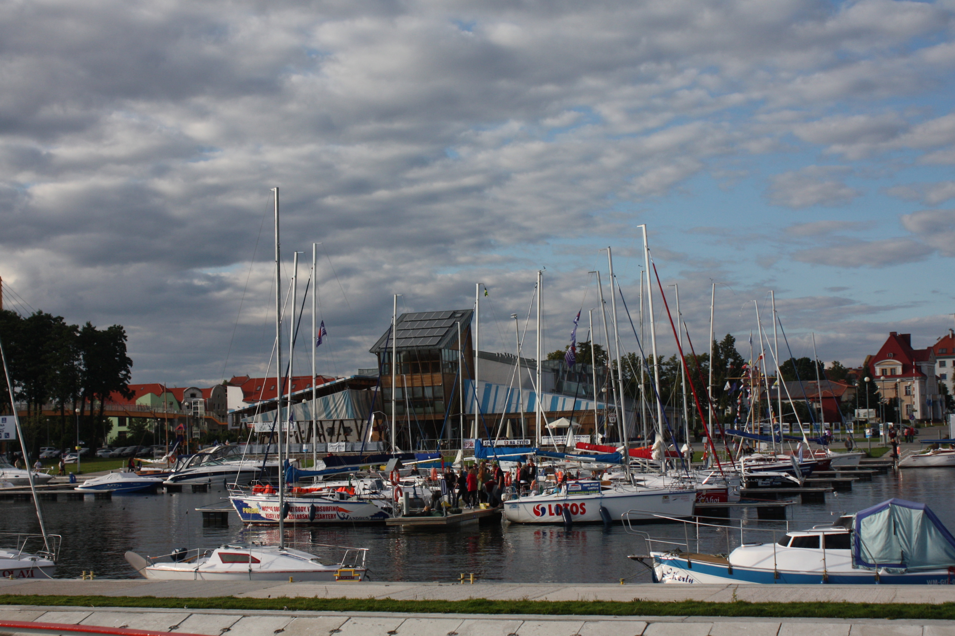 This photo of Warmian-Masurian Voivodeship was taken during Wikiexpedition 2012 set up by Wikimedia Polska Association. You can see all photographs in category Wikiekspedycja 2012. The making of this document was supported by Wikimedia Polska.